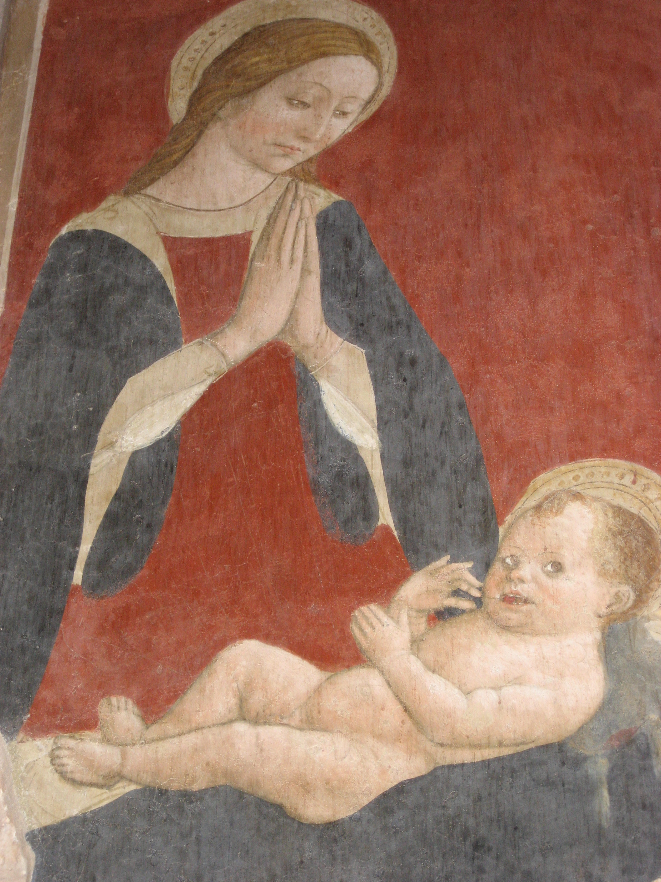 Fresco realized by Andrew De Litio in collaboration with the student Giovanni from Novara. It is found in the third right column of the central aisle.